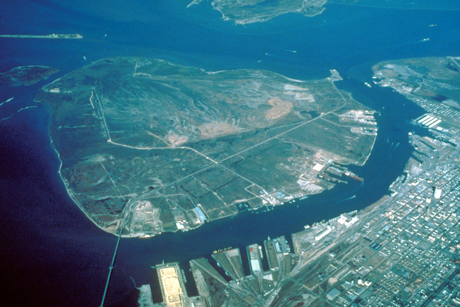 Aerial view of Pelican Island, an island off the northeastern end of Galveston Island. Pelican Island was largely built up by material dredged from the Galveston Ship Channel and the Houston Ship Channel by the U.S. Army Corps of Engineers. The end of Galveston Island, the main part of the city of Galveston, and the Galveston Ship Channel are visible in this photograph. View is to the northeast. Coordinates: 29°19′46.77″N 94°48′13.27″W / 29.3296583°N 94.8036861°W